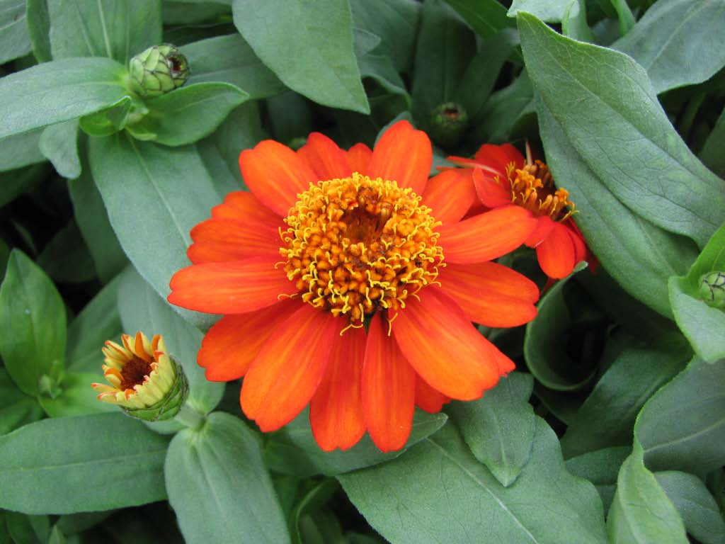 Zinnia Flower Taken by user juanpdp on Jun 21 2006, Richardson TX